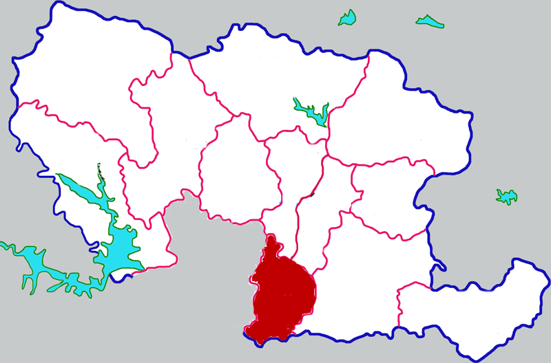 Location of Xinye county in Nanyang city, China